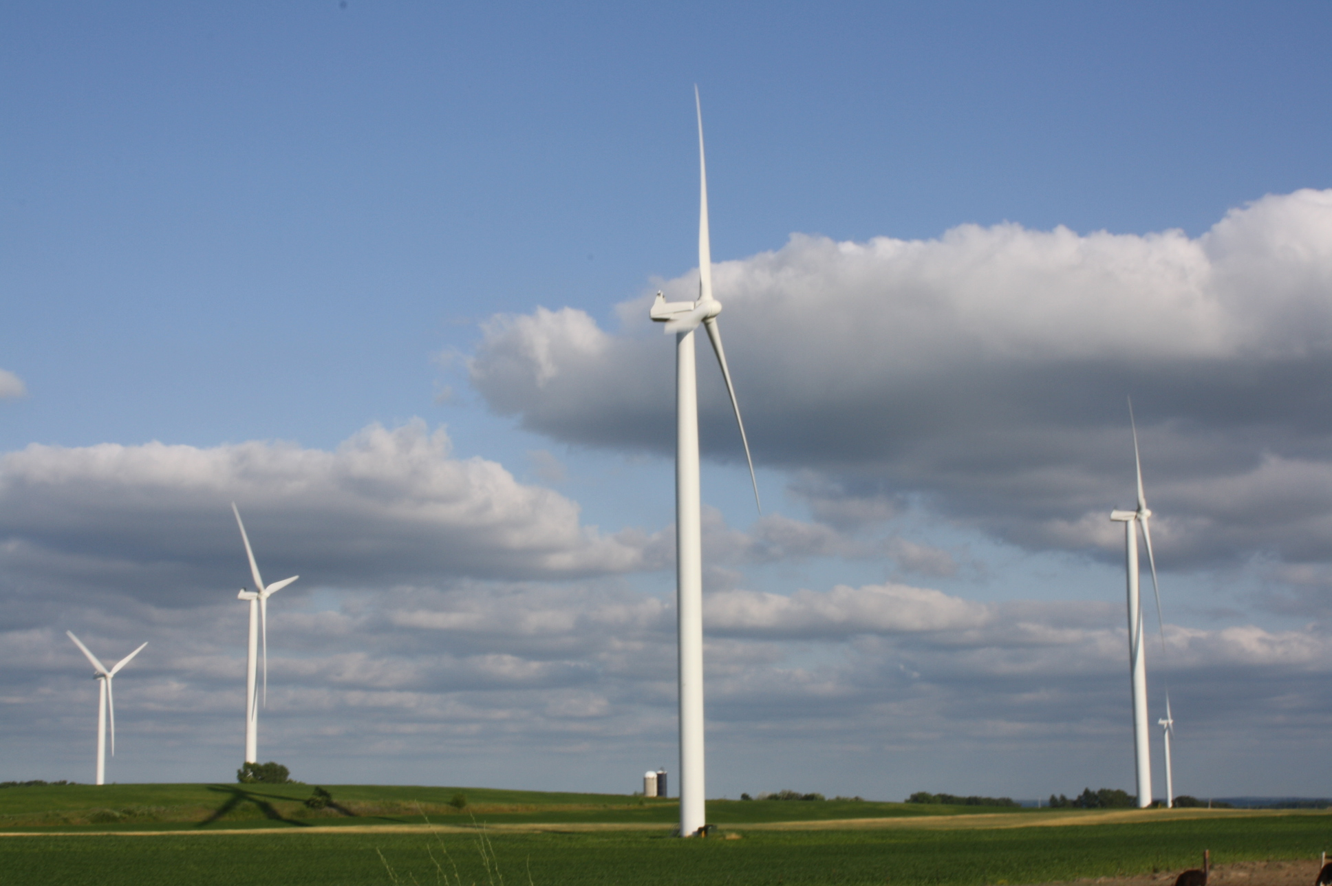 Looking south at the Blue Sky Green Field Wind Farm from the Calumet County border